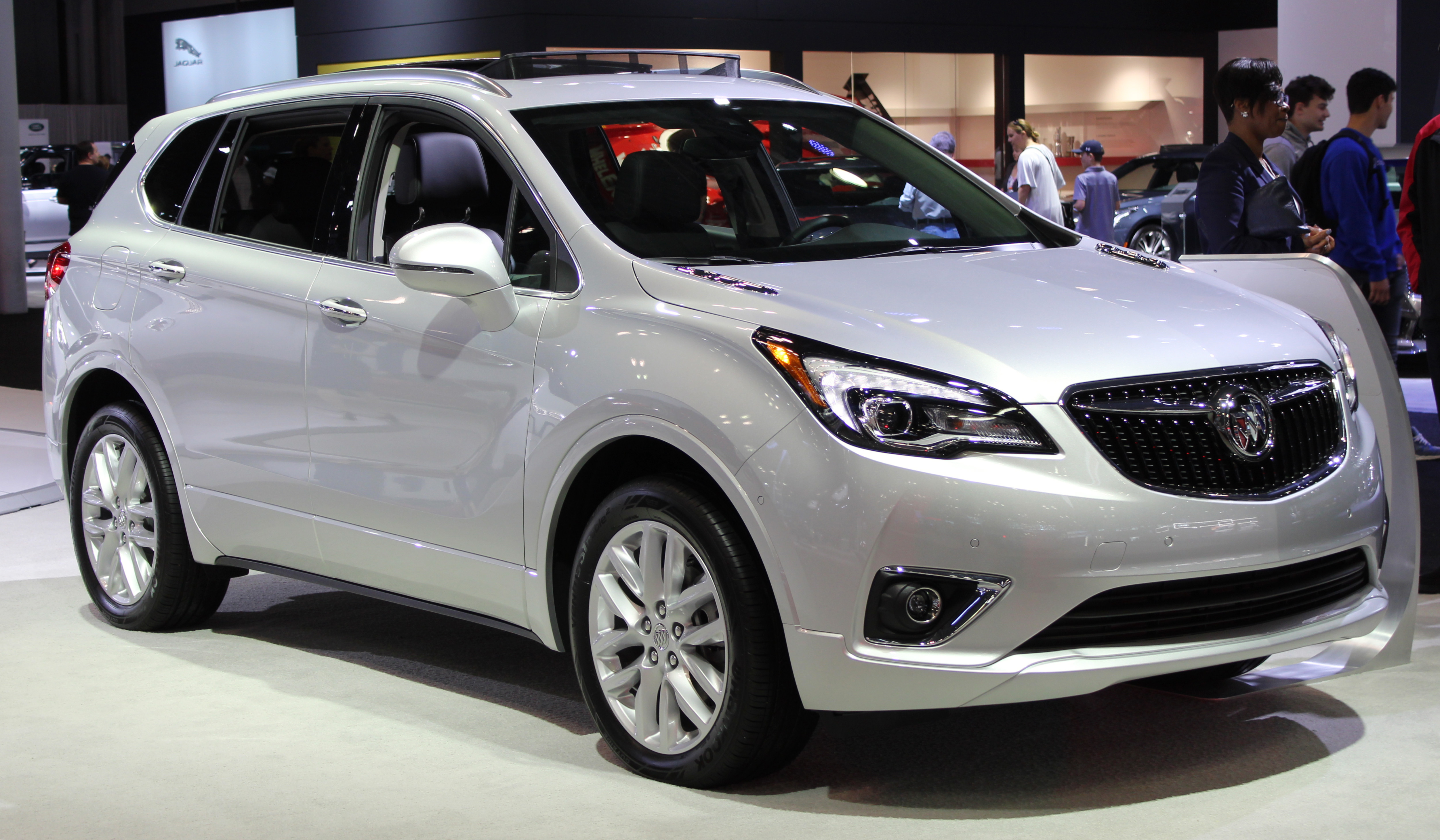 A 2019 Buick Envision photographed during the 2019 New York International Auto Show, in Hudson Yards, Manhattan, NYC